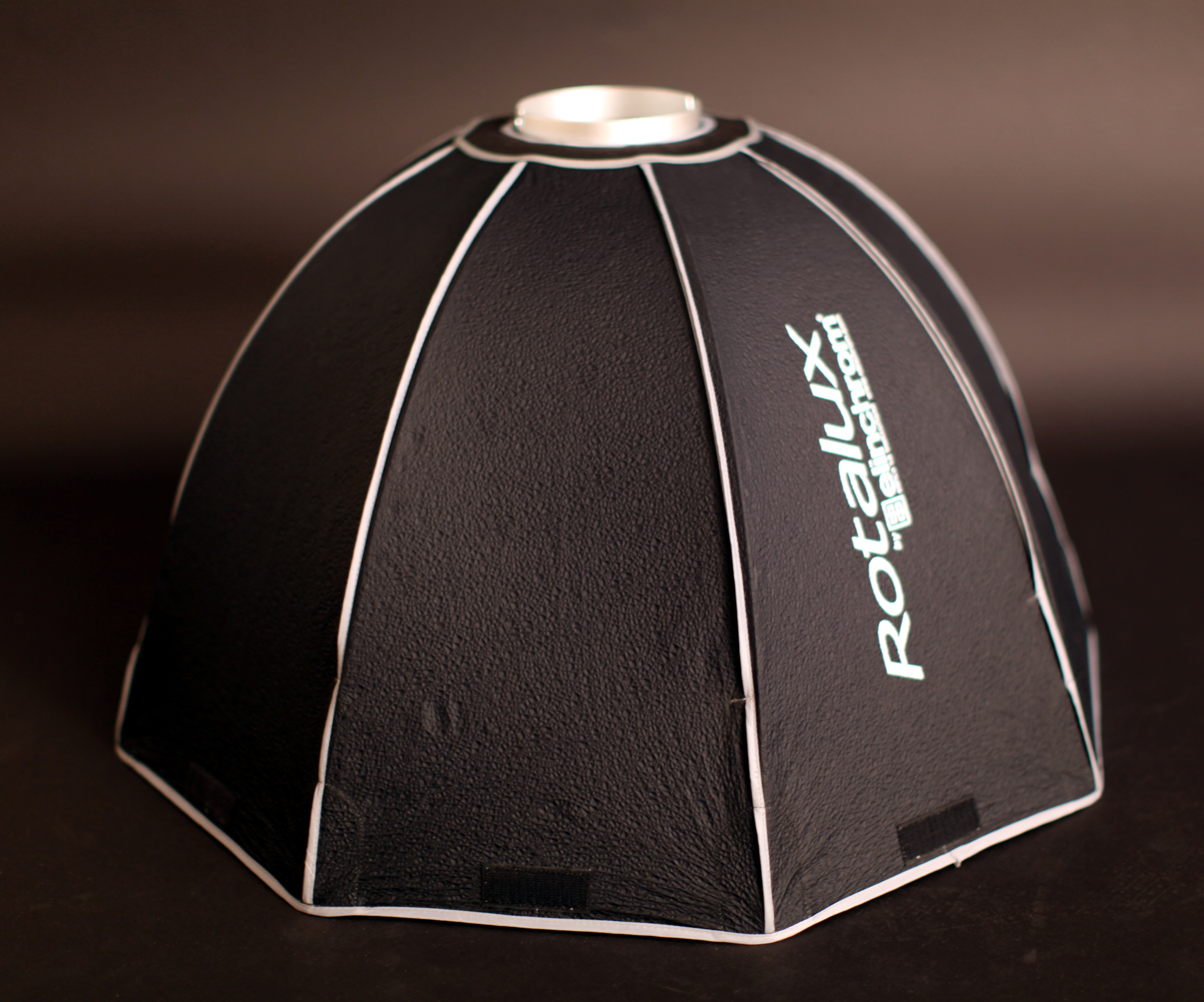 Elinchrom Rotalux deep 70 cm